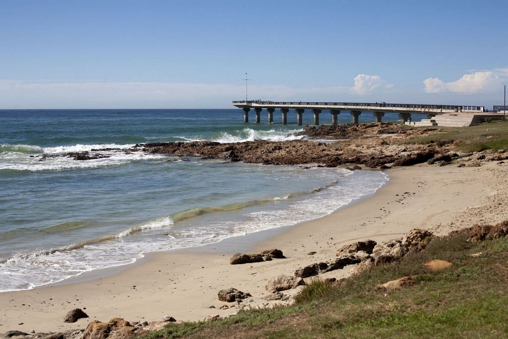 Port Elizabeth's popular Hobie Beach with Shark Rock Pier jutting out into the ocean. Vue de l'Eastern Cape en Afrique du Sud.